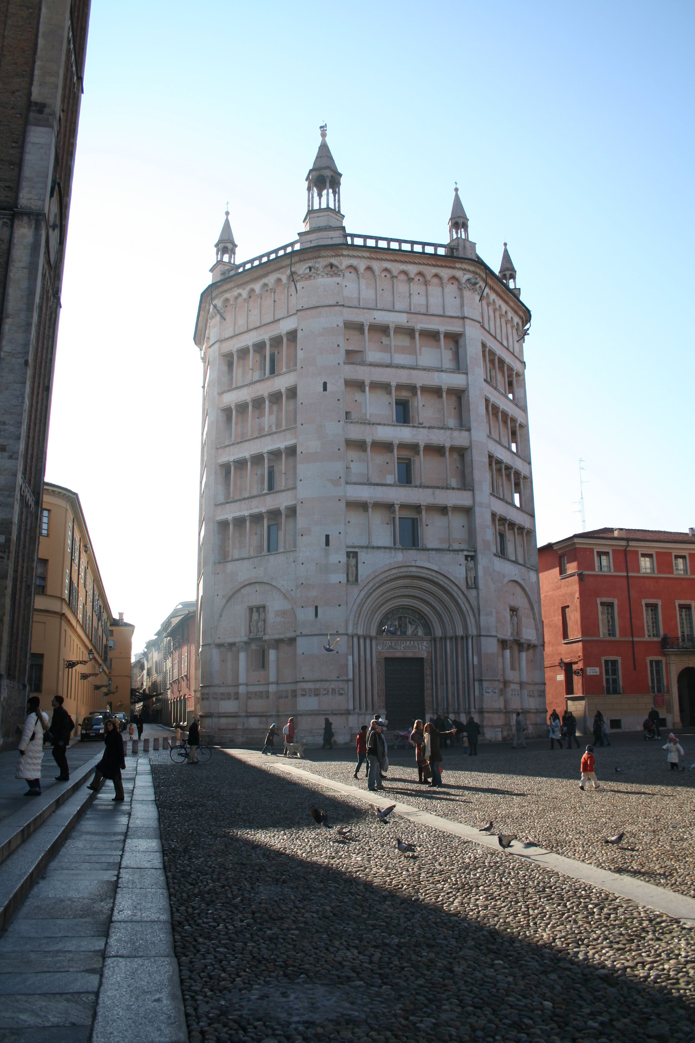 A photograph taken of the Battistero of Parma.